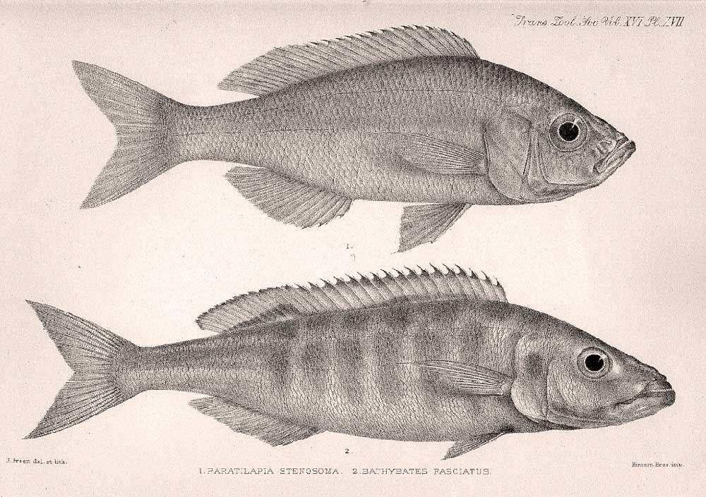 Hemibates stenosoma & Bathybates fasciatus